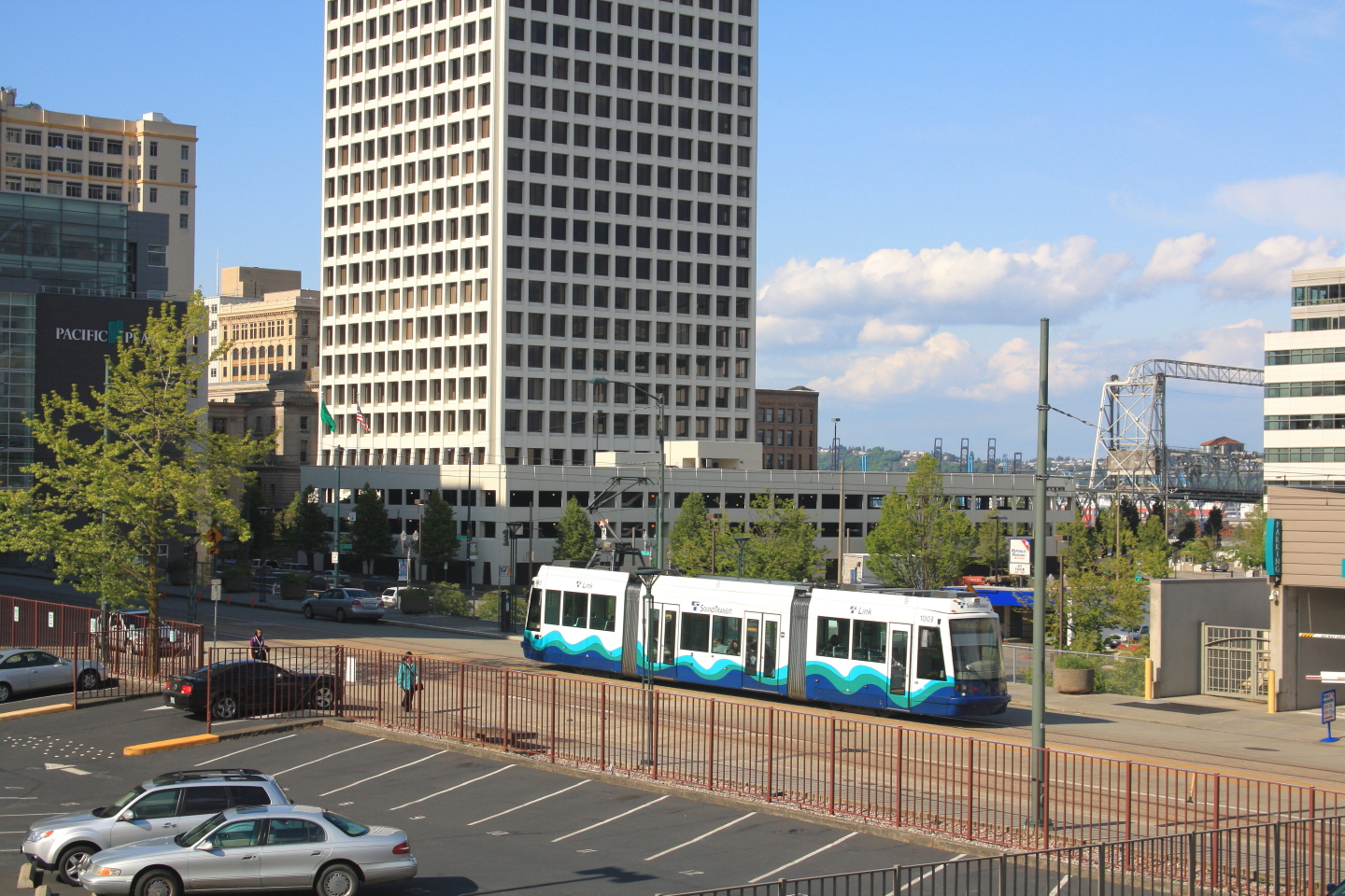 Tacoma Link car 1003, northbound on Commerce Street, approaches South 13th Street on 23 May 2011. The Murray Morgan Bridge across the Thea Foss Waterway is in the raised position in the right background.